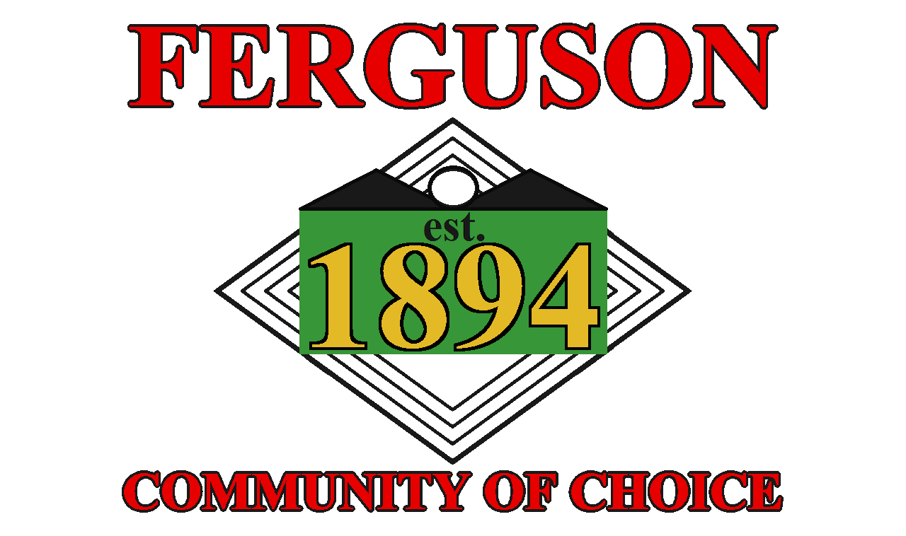 A rough approximated drawing of the city flag of Ferguson, Missouri, based upon partial rough photographs from Google Earth's Street View from 2009 and 2012. It was adopted in 1994.